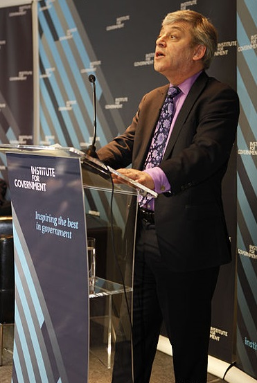 The House of Commons Speaker Rt Hon John Bercow MP addresses the Institute for Government on Parliamentary scrutiny, Tues 18 Jan 2011 For more about this event